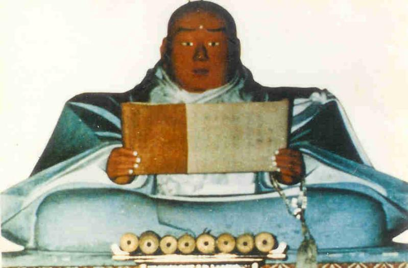 Statue of Nichiren at the Myohon-ji temple in Kyonan Town, Chiba Prefecture, Japan